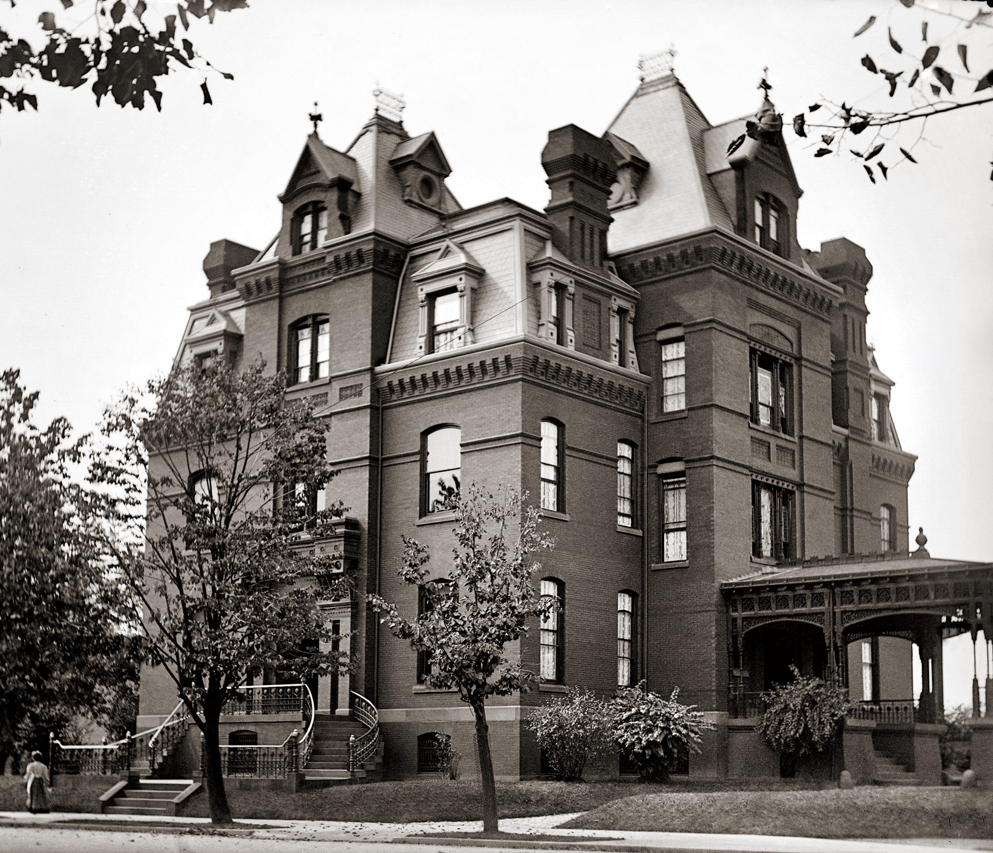 Residence of the Republican politician James G. Blaine located at 2000 Massachusetts Avenue, NW, in the Dupont Circle neighborhood of Washington, D.C.. The home was constructed in 1881 and designed by architect John Fraser. It's the only surviving example of large mansions built during the late 1800s that once ringed Dupont Circle. The other notable owner of the building is George Westinghouse who bought the home in 1901 and resided there until his death in 1914. In recent years, the Blaine Mansion has been used for commercial purposes. The current owner, a lawyer, John R. Phillips, hired Eichberg Construction to renovate the property which included adding an underground parking deck, adjoining six-story residential building, and Italian restaurant. The renovation costs were an estimated $20 million dollars. The Blaine Mansion is a contributing property to the Dupont Circle Historic District and Massachusetts Avenue Historic District.